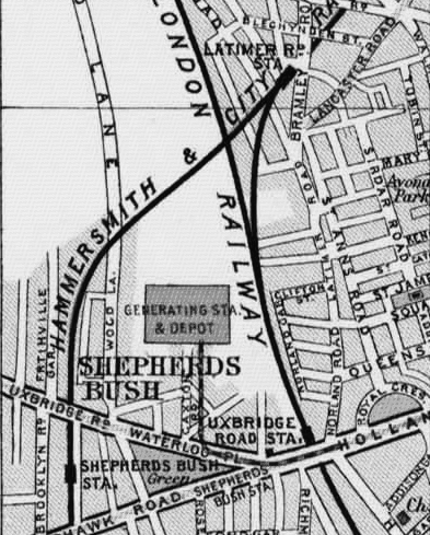 Map of Shepherd's Bush Green and location of Uxbridge Road and Shepherd's Bush stations.